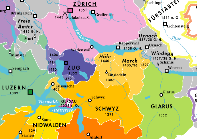 A view of Schwyz in 1474.